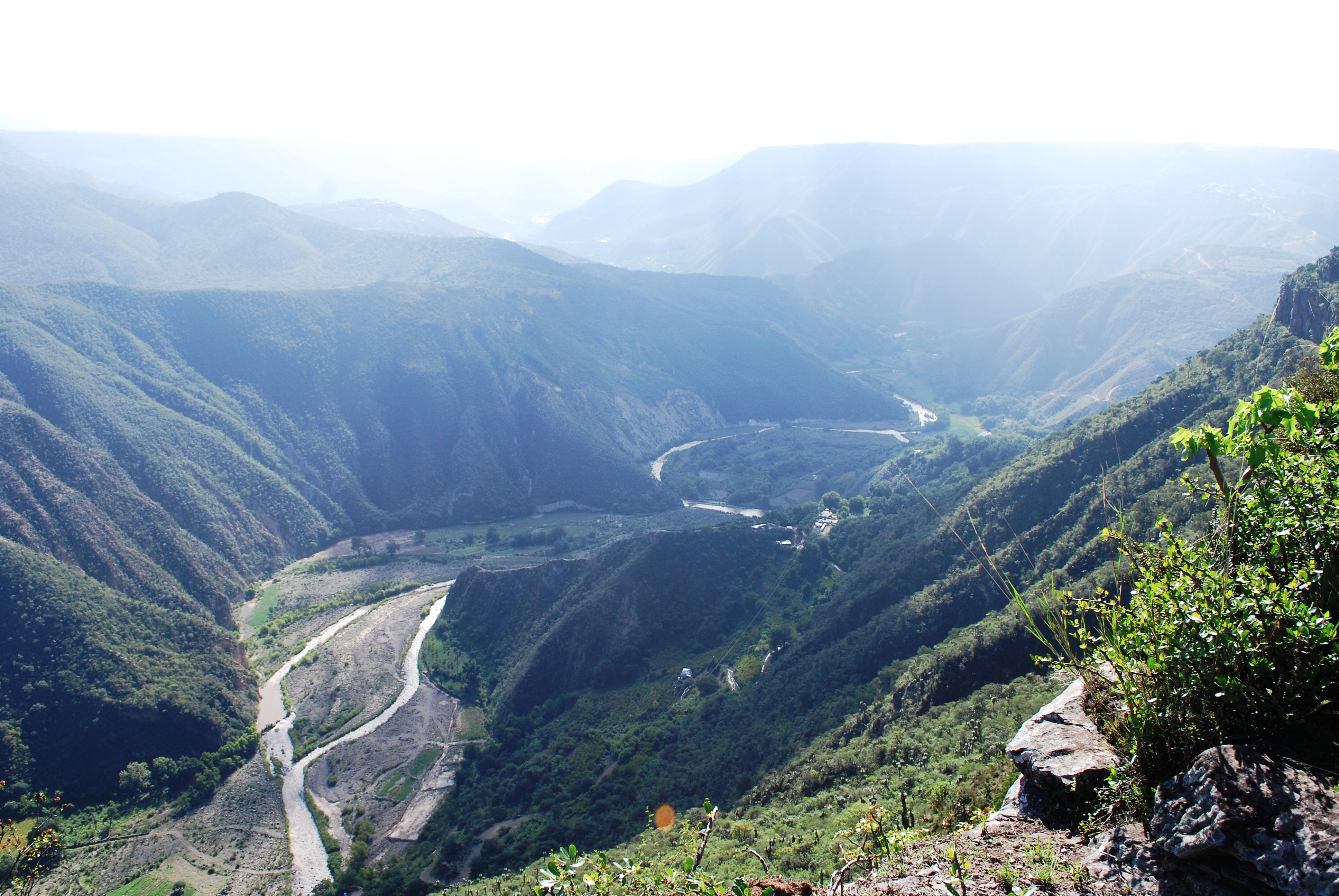 Canyon view looking south from the Peña del Aire in Huasca de Ocampo, Hidalgo, Mexico